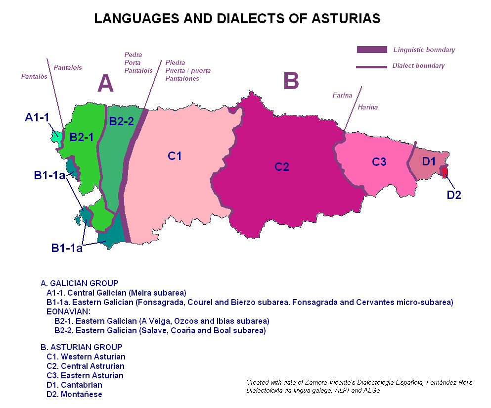 Languages and dialects of Asturias (Northern Spain)